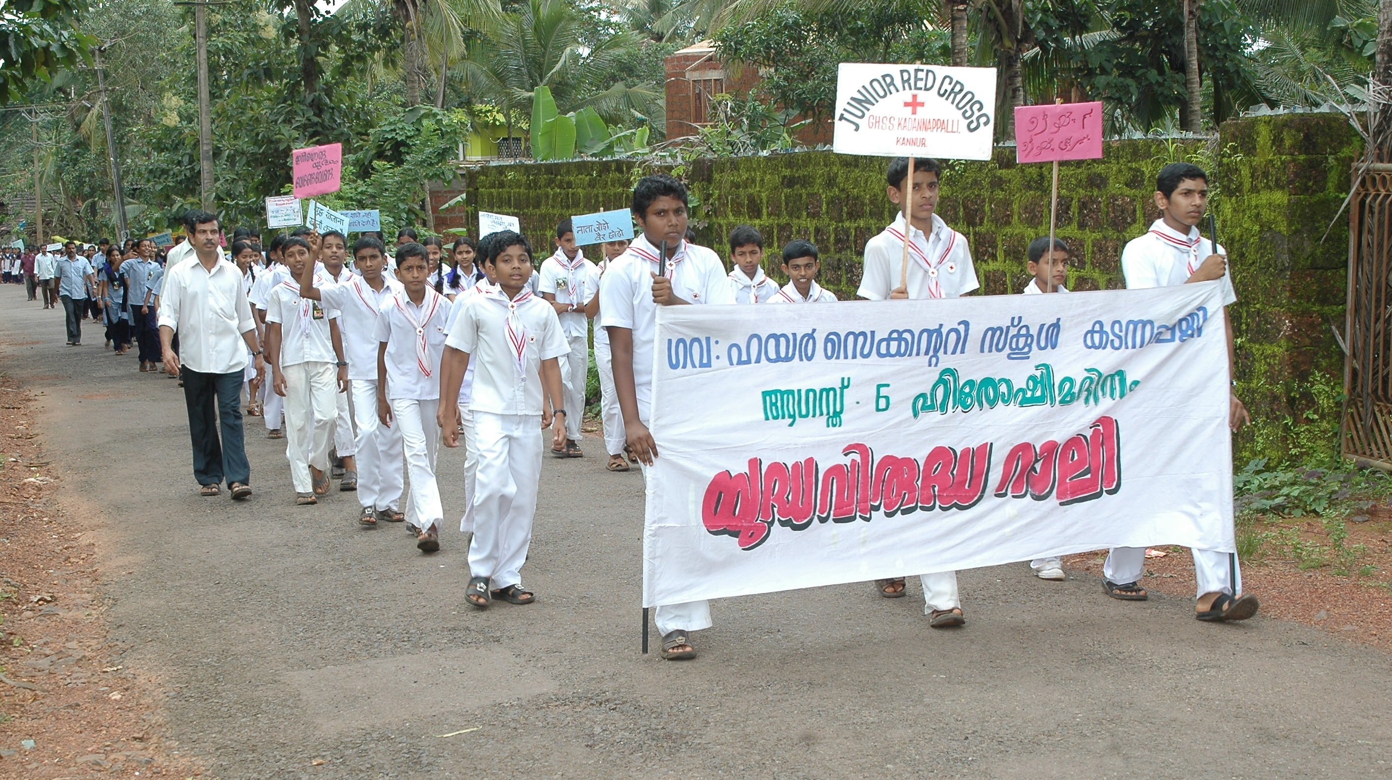 kadannappally